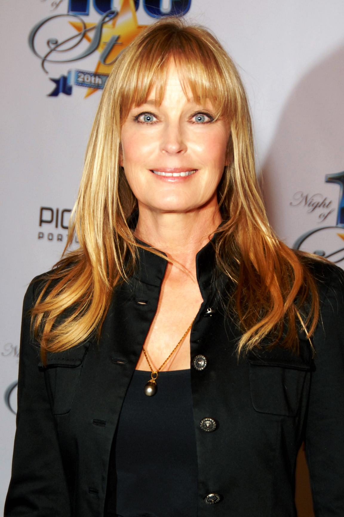 Bo Derek attending the "Night of 100 Stars" for the 82nd Academy Awards viewing party at the Beverly Hills Hotel, Beverly Hills, CA on March 7, 2010 - Photo by Glenn Francis of